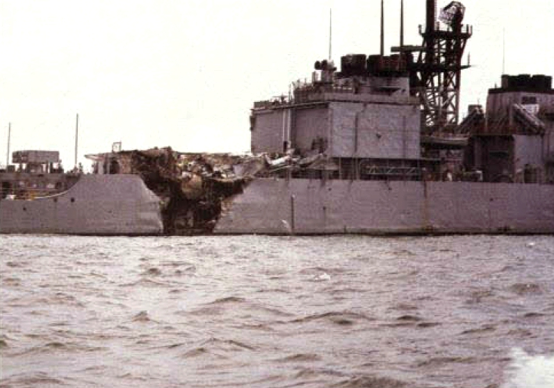 The U.S. Navy destroyer USS Kinkaid (DD-965) following her collision with the Panamanian-registered freighter M/V Kota Petani in the Strait of Malacca on 12 November 1989. The collision caused one death and 15 other casualties to the Kinkaid's crew, and US$15 million in damages to Kinkaid. She made Singapore under her own power for temporary repairs, then Subic Bay, Philippines, then San Diego, California (USA) for permanent repairs.